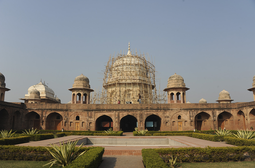 This is an overview of the tomb of Cheili in Thanesar.